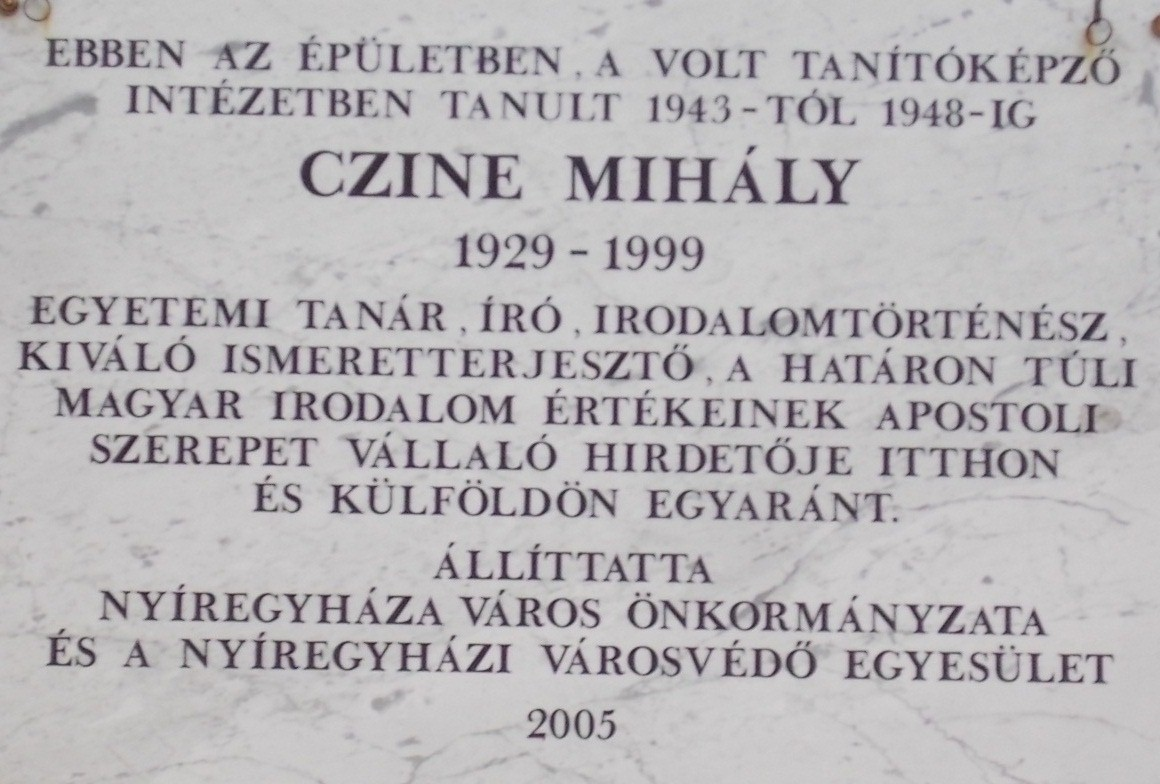 Kölcsey Ferenc high school. Part of 'Benczúr Square east and west side' monument complex - 6 Széchenyi Street, Nyíregyháza, Szabolcs-Szatmár-Bereg County, Hungary.